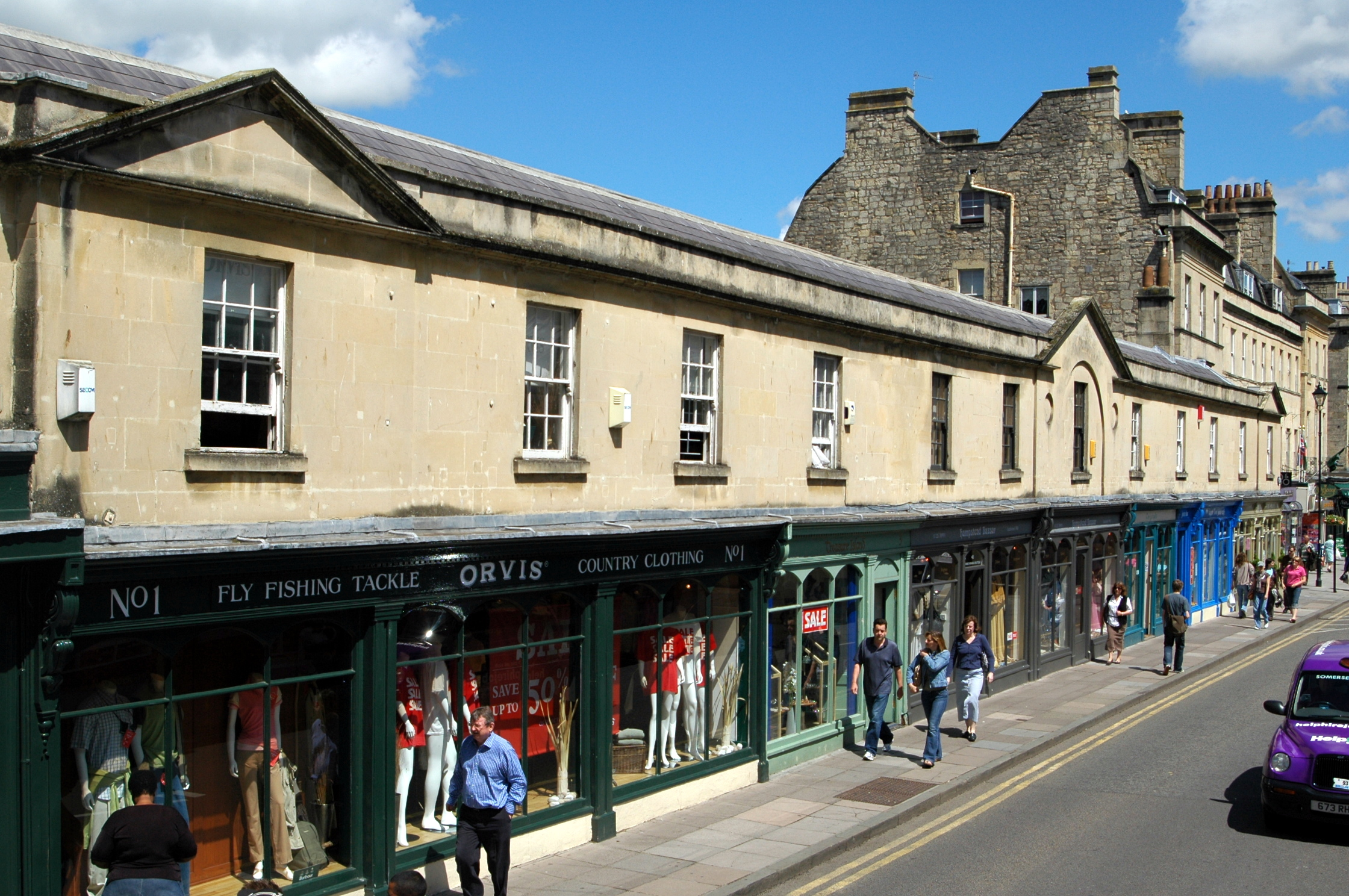 Taken by Erebus555. These are shops on the Pulteney Bridge in Bath, Somerset.